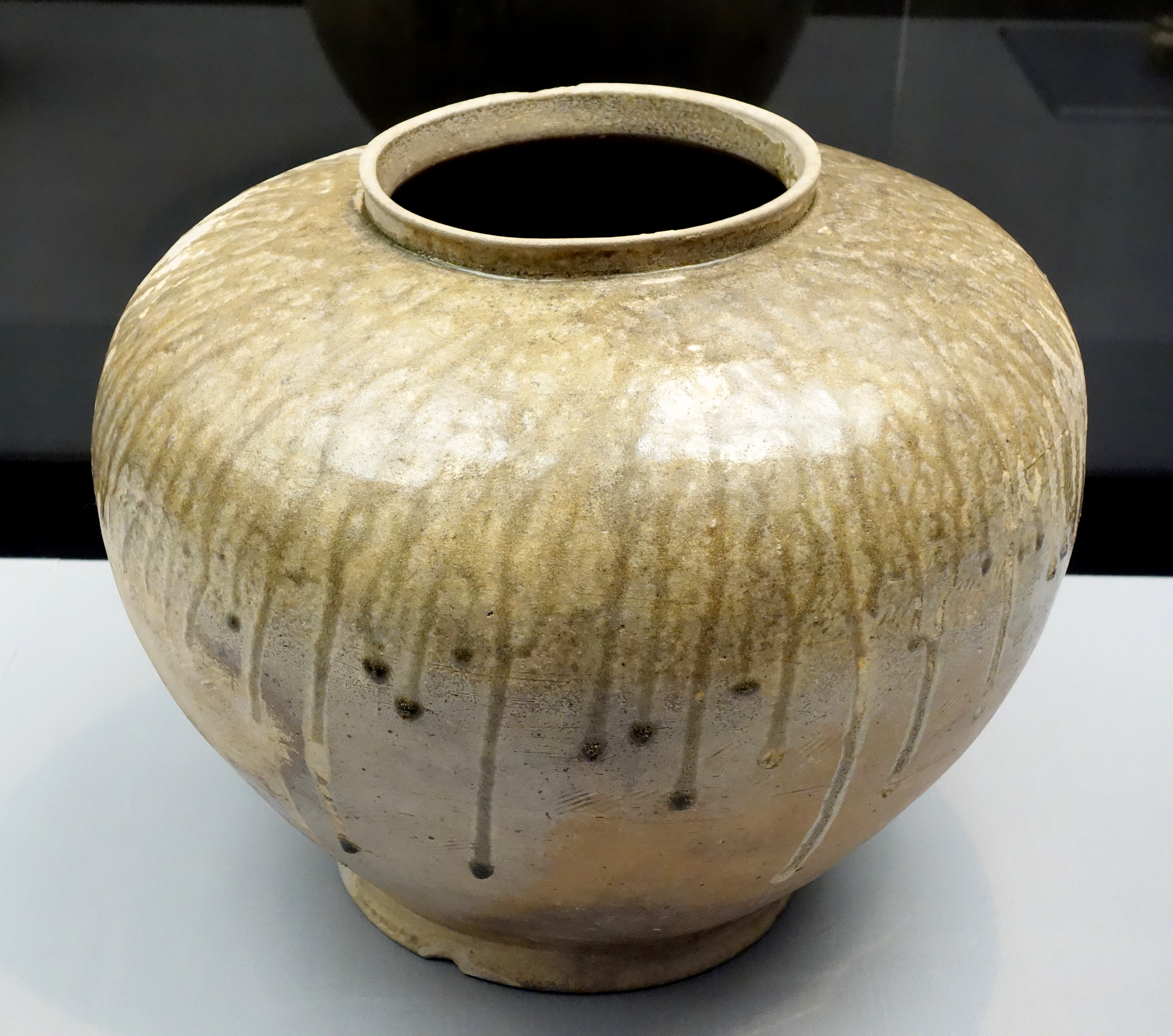 Exhibit in the Tokyo National Museum, Tokyo, Japan. This artwork is old enough so that it is in the public domain.